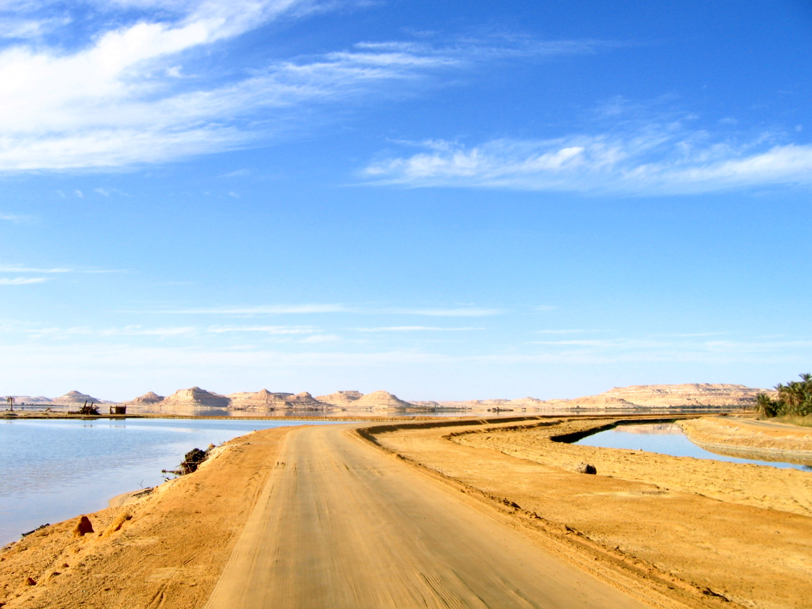 A road leading out of Siwa Oasis, Egypt.